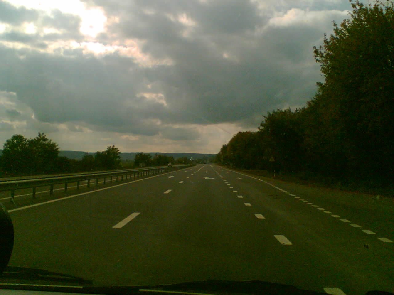 Highway E40 in Ukraine (M06)